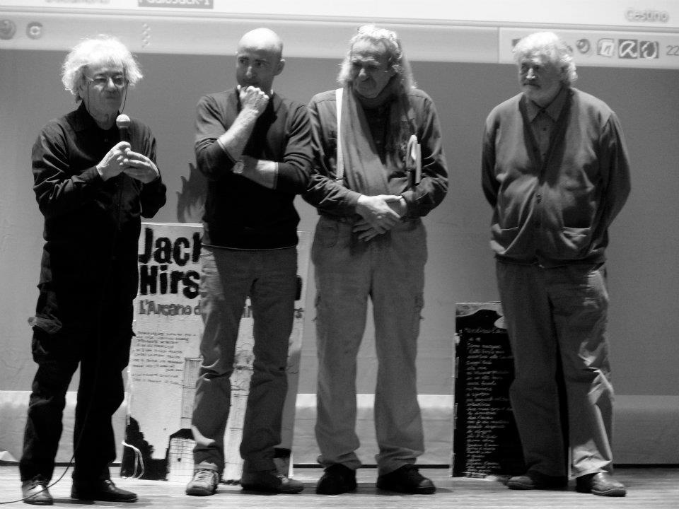 Beppe Costa with Leonardo Omar Onida, Jack Hirschman and Paul Polansky at International Prize City of Sassari 2011 in theatre